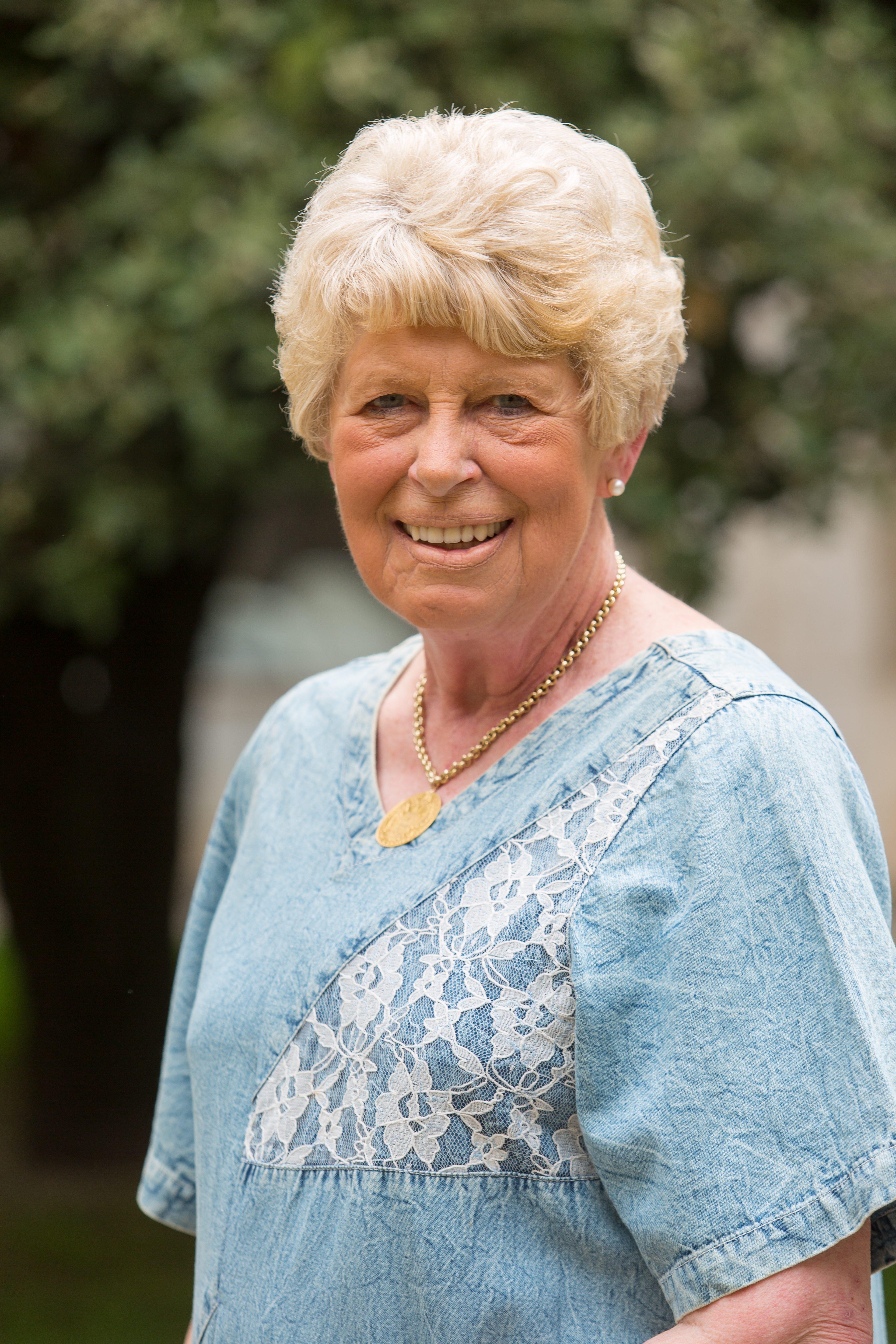 MARGARET S. ARCHER